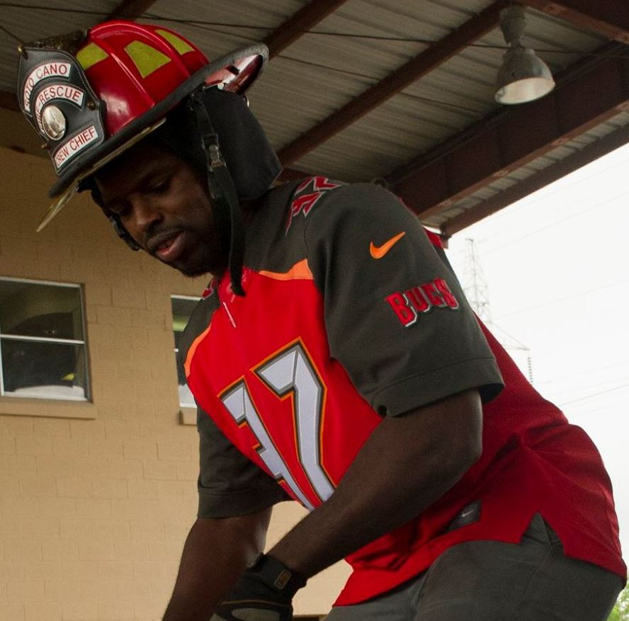 Keith Tandy, Tampa Bay Buccaneers safety attempts to pick up an egg to demonstrate the precision and dexterity of a devise emergency responders use to manipulate metal and other materials Feb. 7, 2016 at Soto Cano Air Base, Honduras. NFL cheerleaders and players took time to meet with members of the base as a part of a visit to the base hosted by the Armed Forces Entertainment for Super Bowl 50.